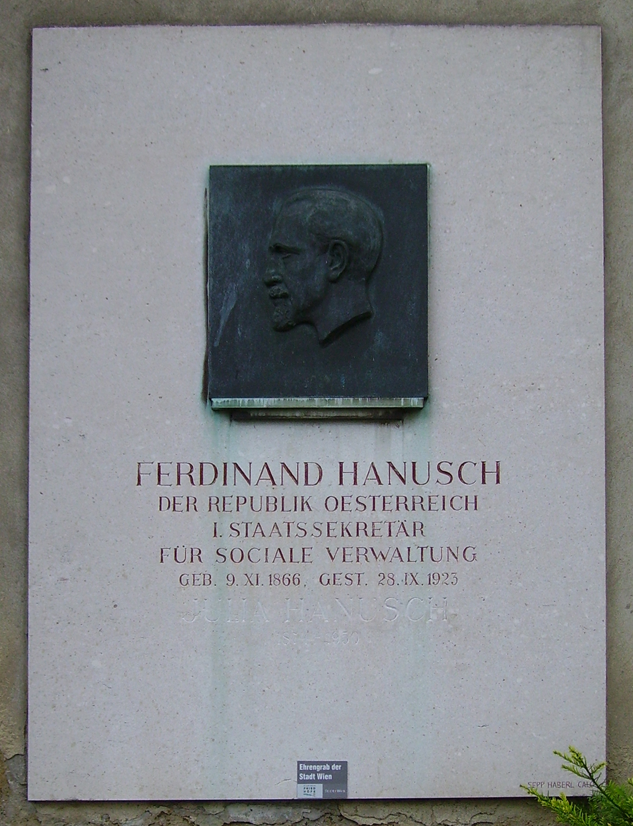 Ferdinand Hanusch (1866-1923), urngrave, Vienna, Feuerhalle Simmering